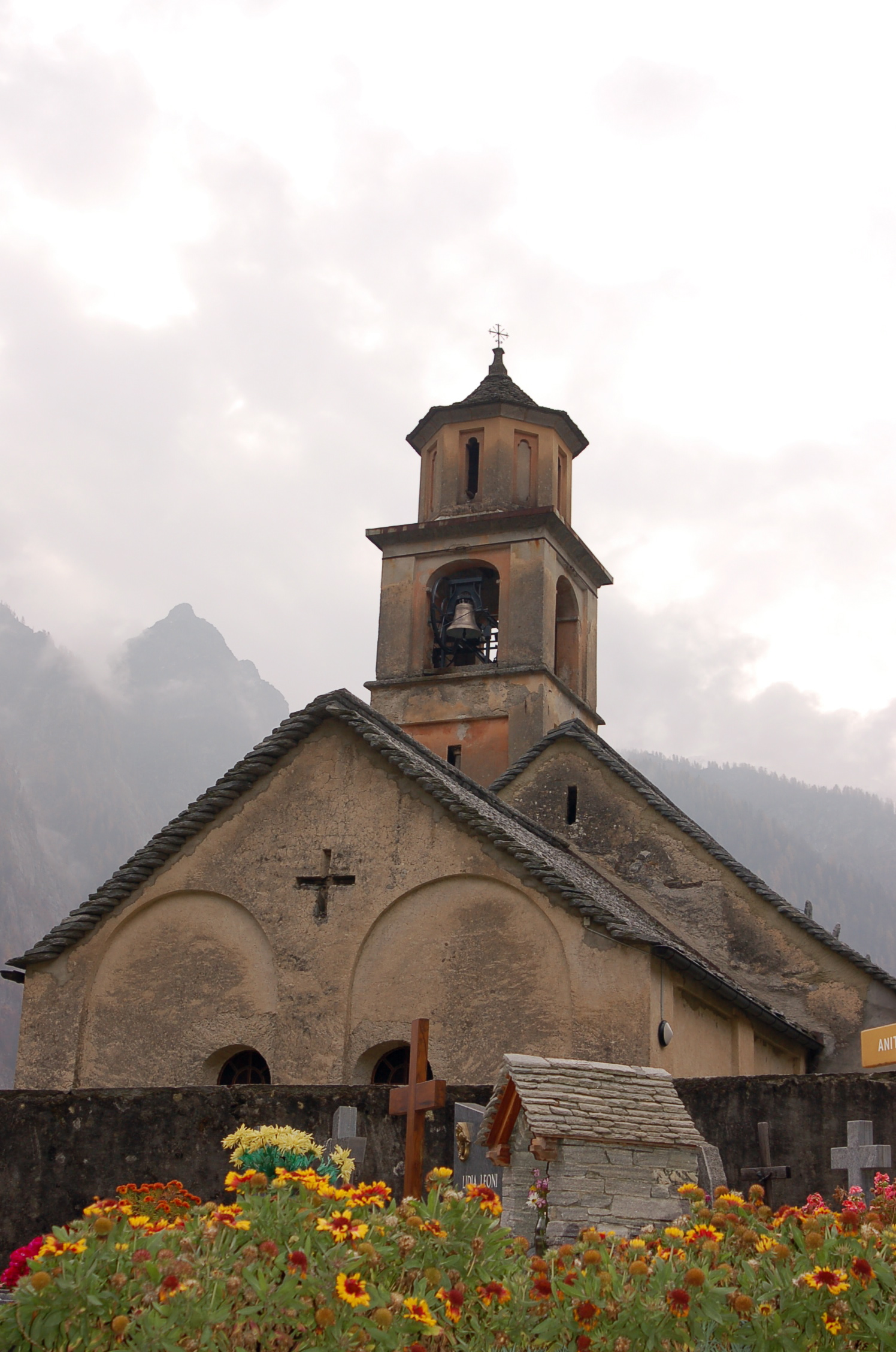 Church in Cerentino, Ticino, Switzerland